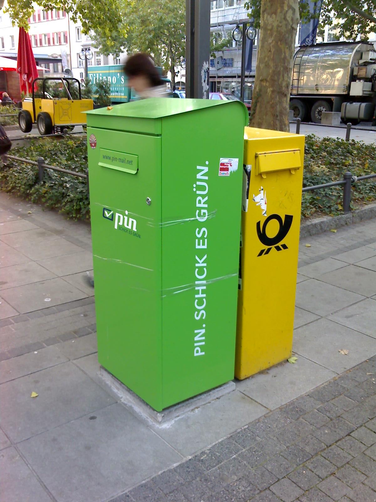 Post boxes showing new postal services competitor PIN Group next to long-standing ex German national postal service, Deutsche Post